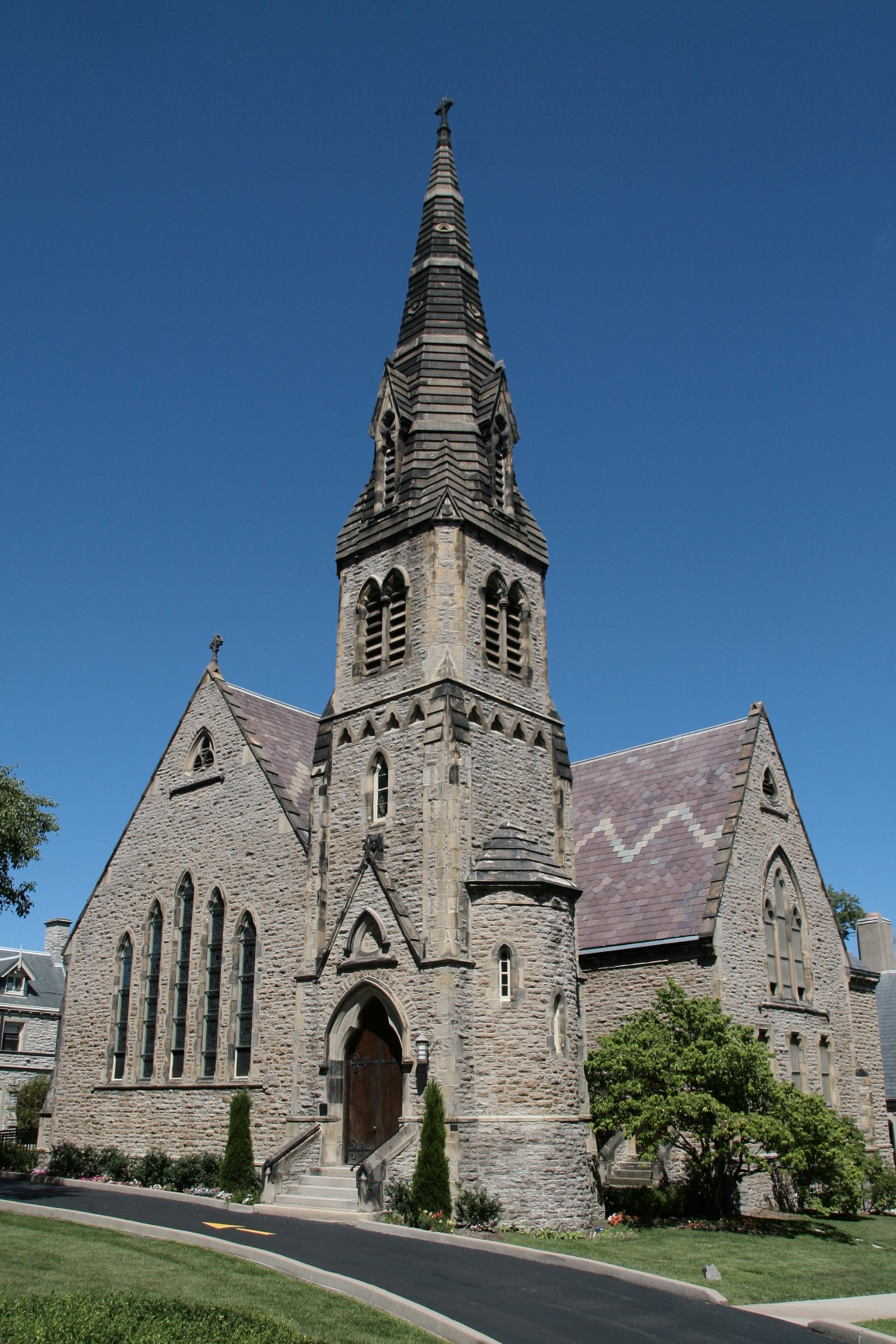 Calvary Episcopal Church taken by Greg Hume